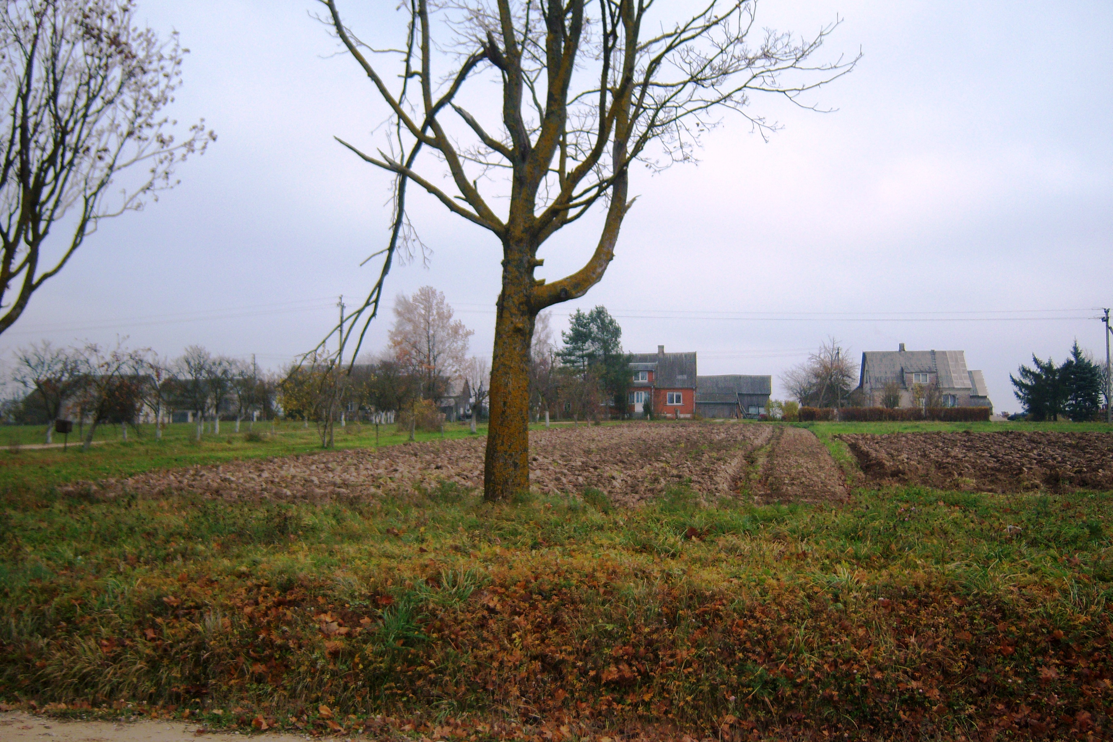 Dvylikiai, Prienai district, Lithuania